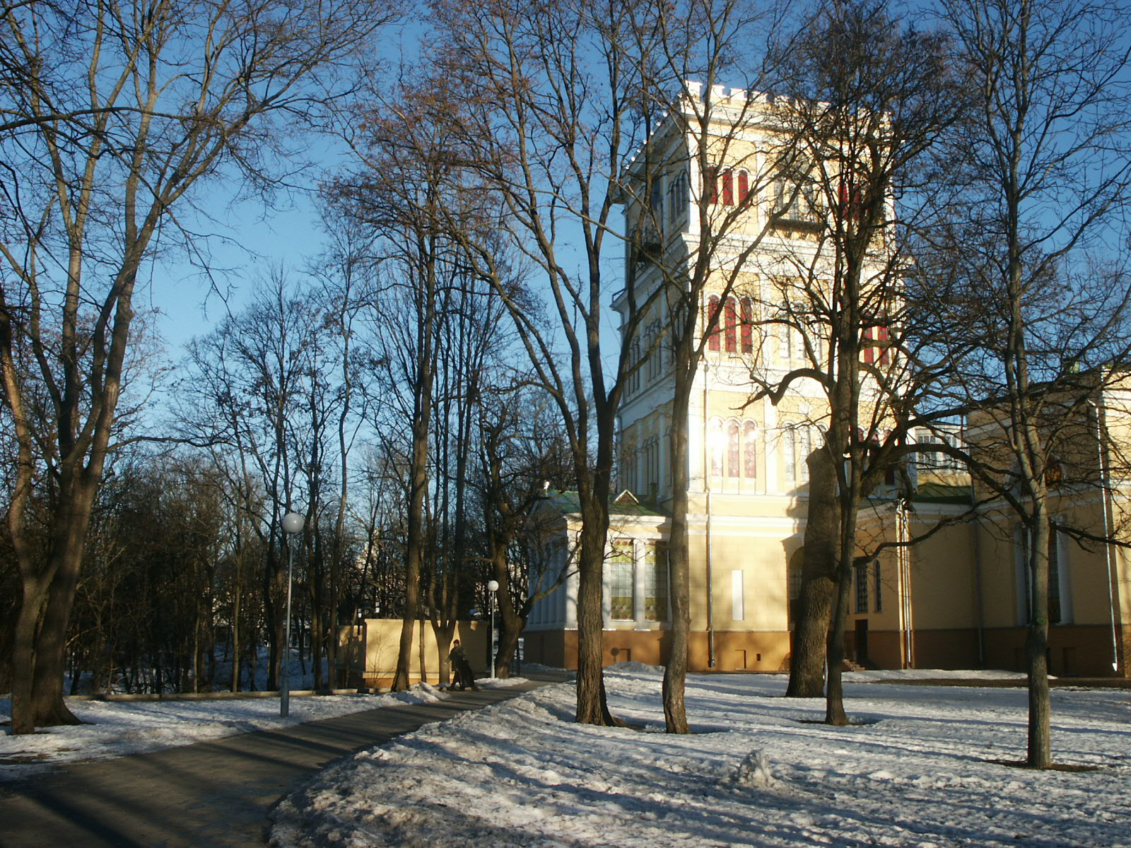 Palace of Pashkevichs, Homel, Belarus.